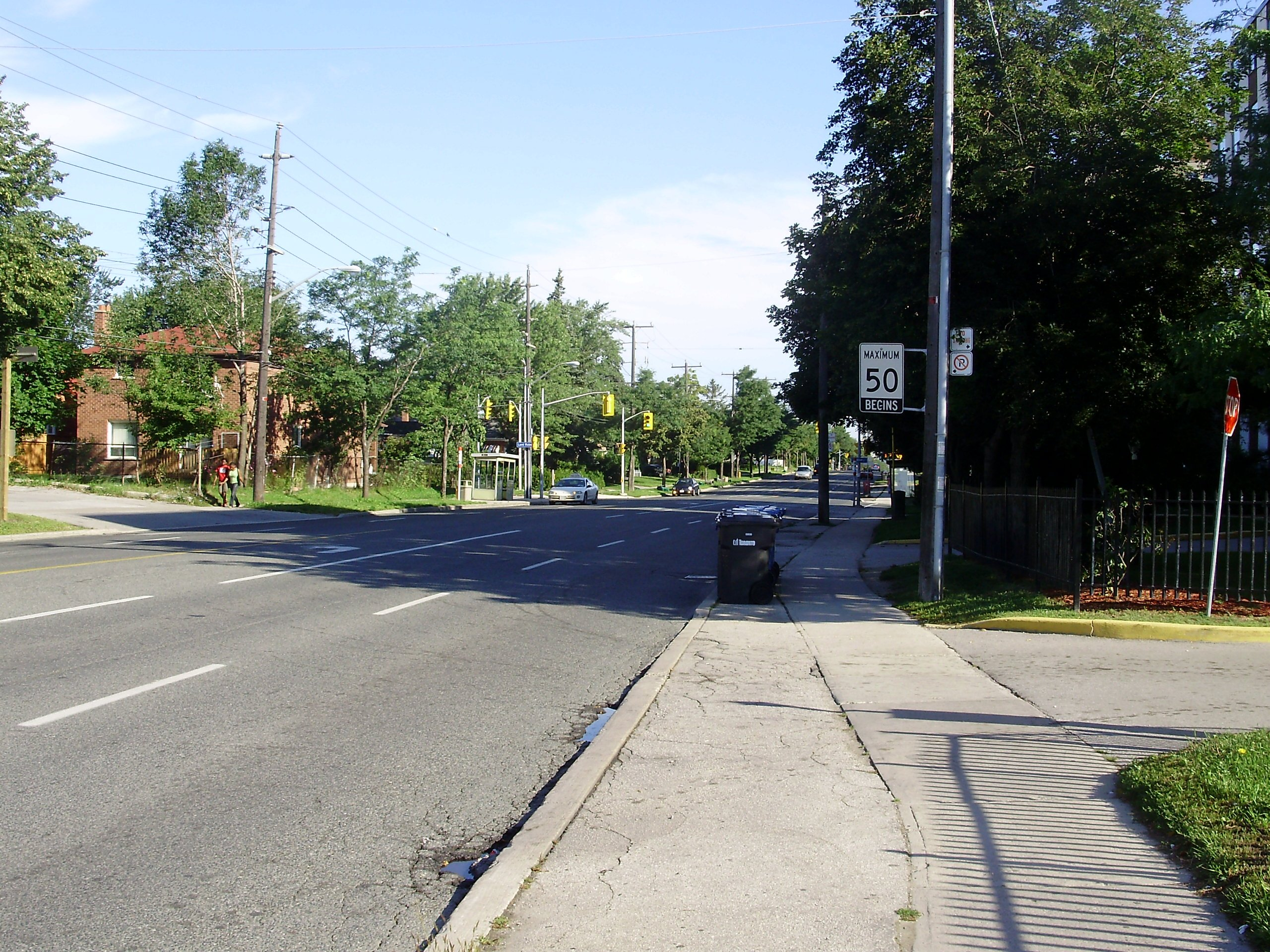 Looking north up Midland Avenue north of Eglinton Avenue East, in the Eglinton East neighbourhood of Scarborough, Ontario, Canada.